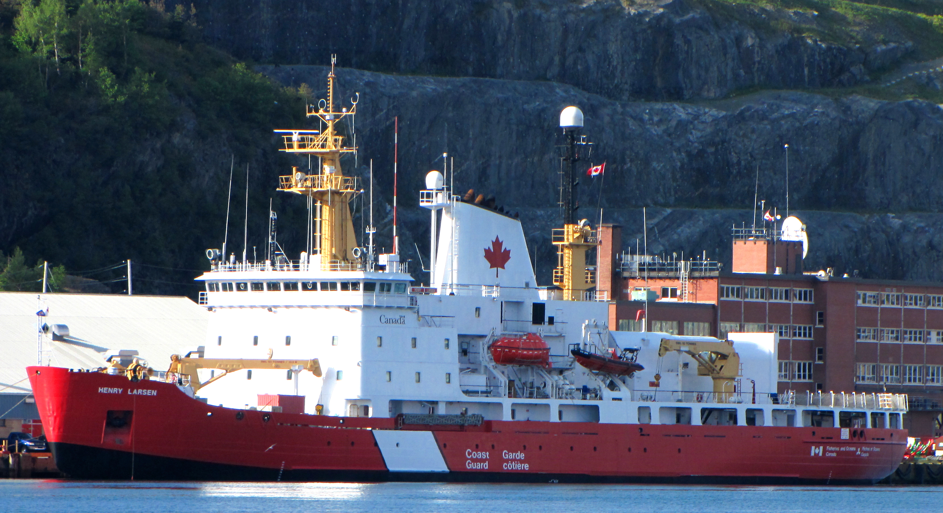 CCGS Henry Larsen, Medium Icebreaker, in St. John's, NL, Canada